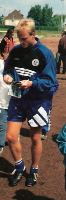 Mike Büskens at the 7th of July 1996